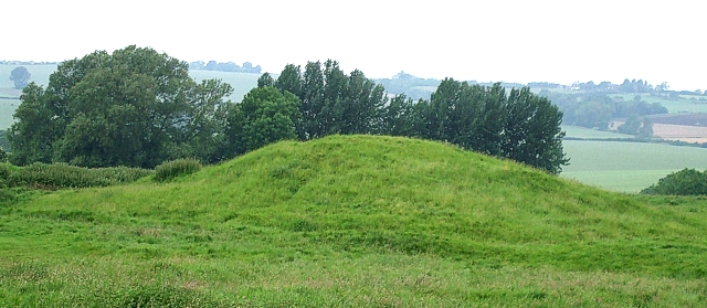 The Beacon, Cublington. The Beacon is a motte (castle mound) to the west of the village of Cublington. (see also 465384). It is the most noticeable of a group of earthworks betraying the erstwhile existence of a Mediæval village (see 465390) Cublington has its own interesting website at with some good old photos etc.